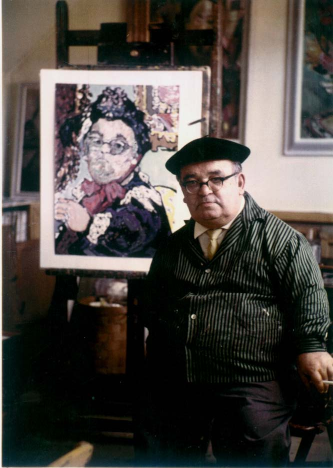 Lulu Beck